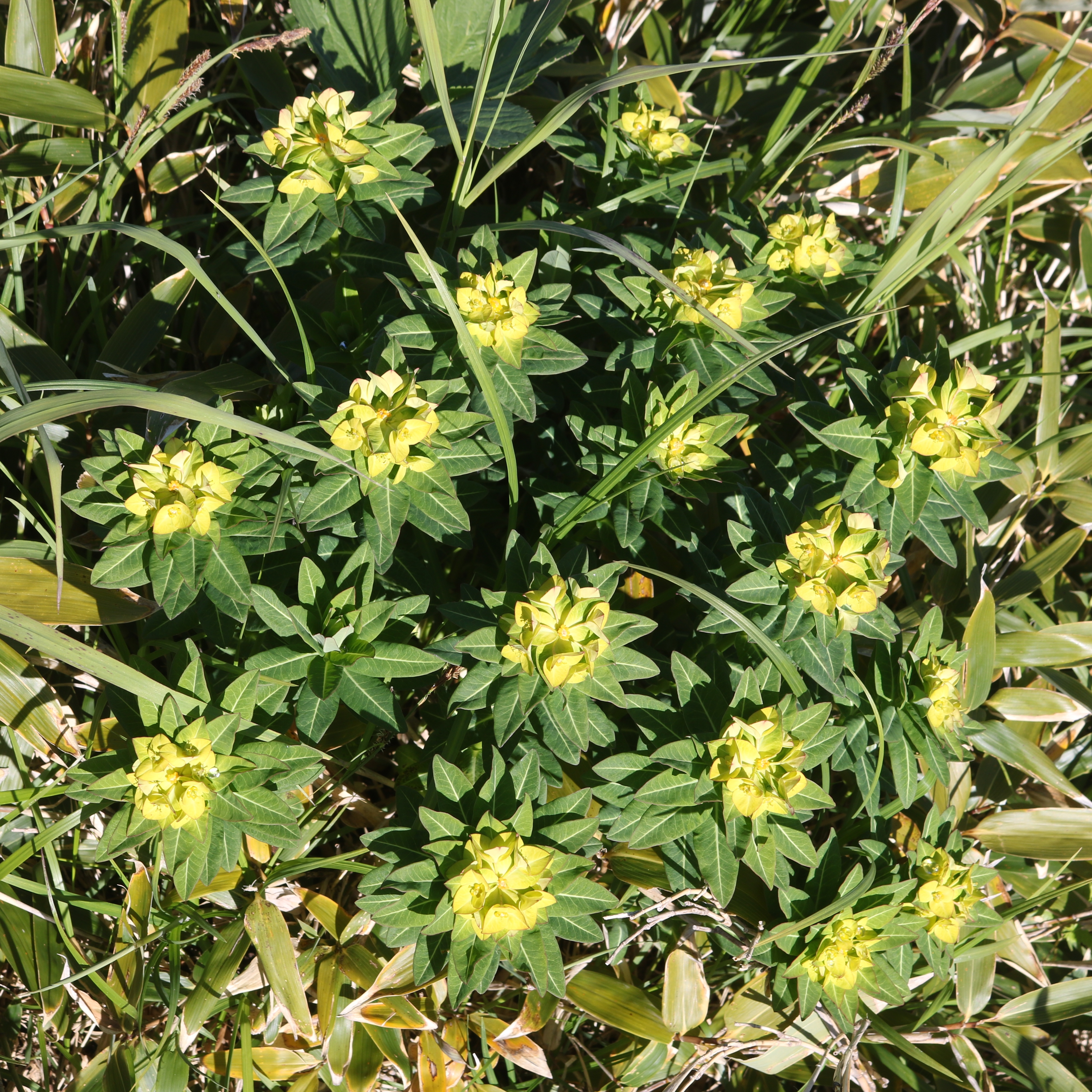 Euphorbia togakusensis in Mount Sannomine, Ryohaku Mountains, Ono, Fukui Prefecture, Japan.